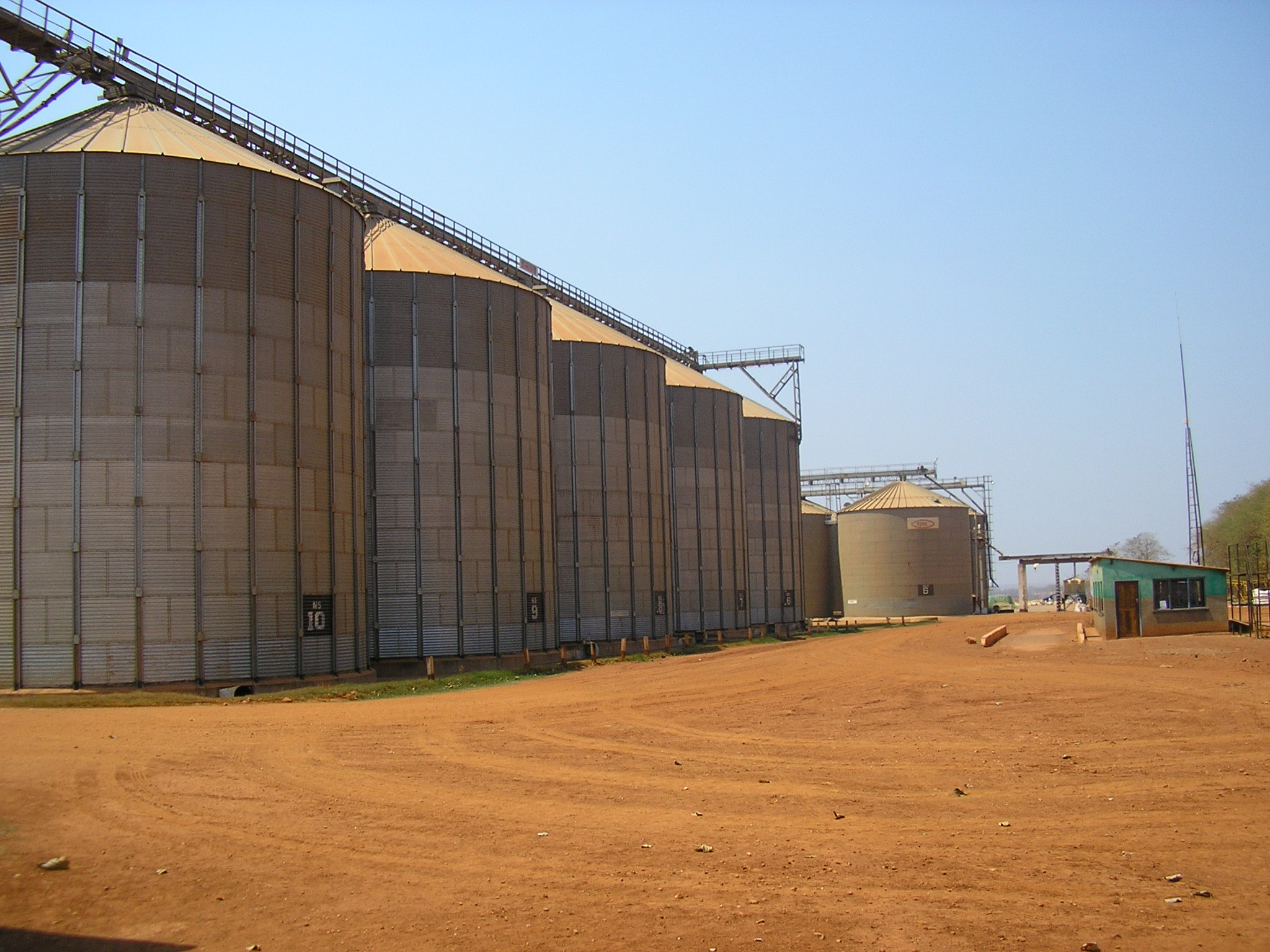 Grain silos with total capacity to store over 100 tonnes of grain at Nampamba farm Mpongwe, Zambia